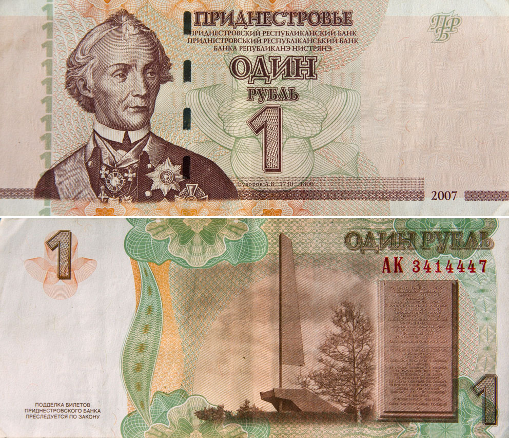 Transdnistria one ruble